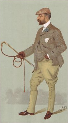 Caricature of Mr Ernest Terah Hooley. Caption read "Papworth".